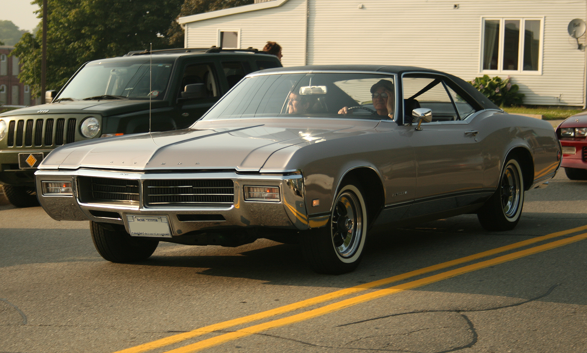 1969 Buick Riviera